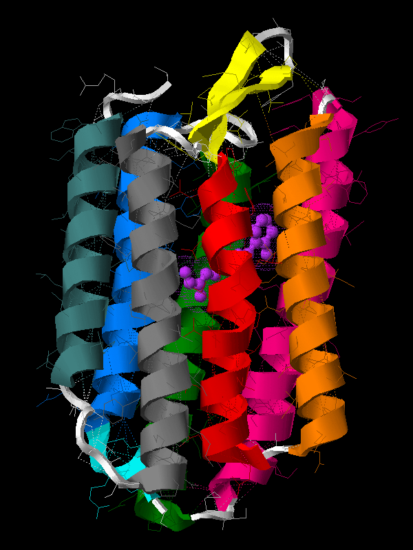 Bacteriorhodopsin - a single subunit with retinal (PDB ID: 1X0S).This image was created with RasTop (Molecular Visualization Software) and Adobe Photoshop Elements.